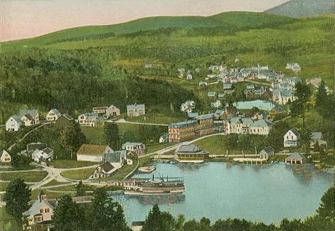 Bird's-eye View, Sunapee Village, NH; from a 1909 postcard.